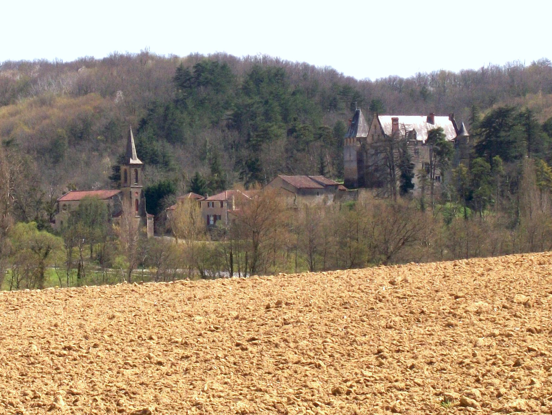 Monclar-sur-Losse, Gers, France